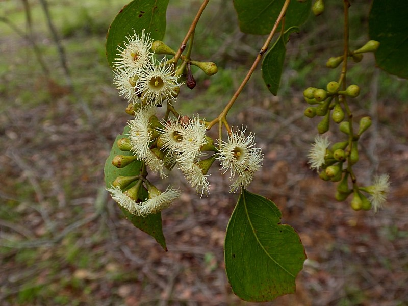 Flowers and buds of Eucalyptus baueriana at Brogo